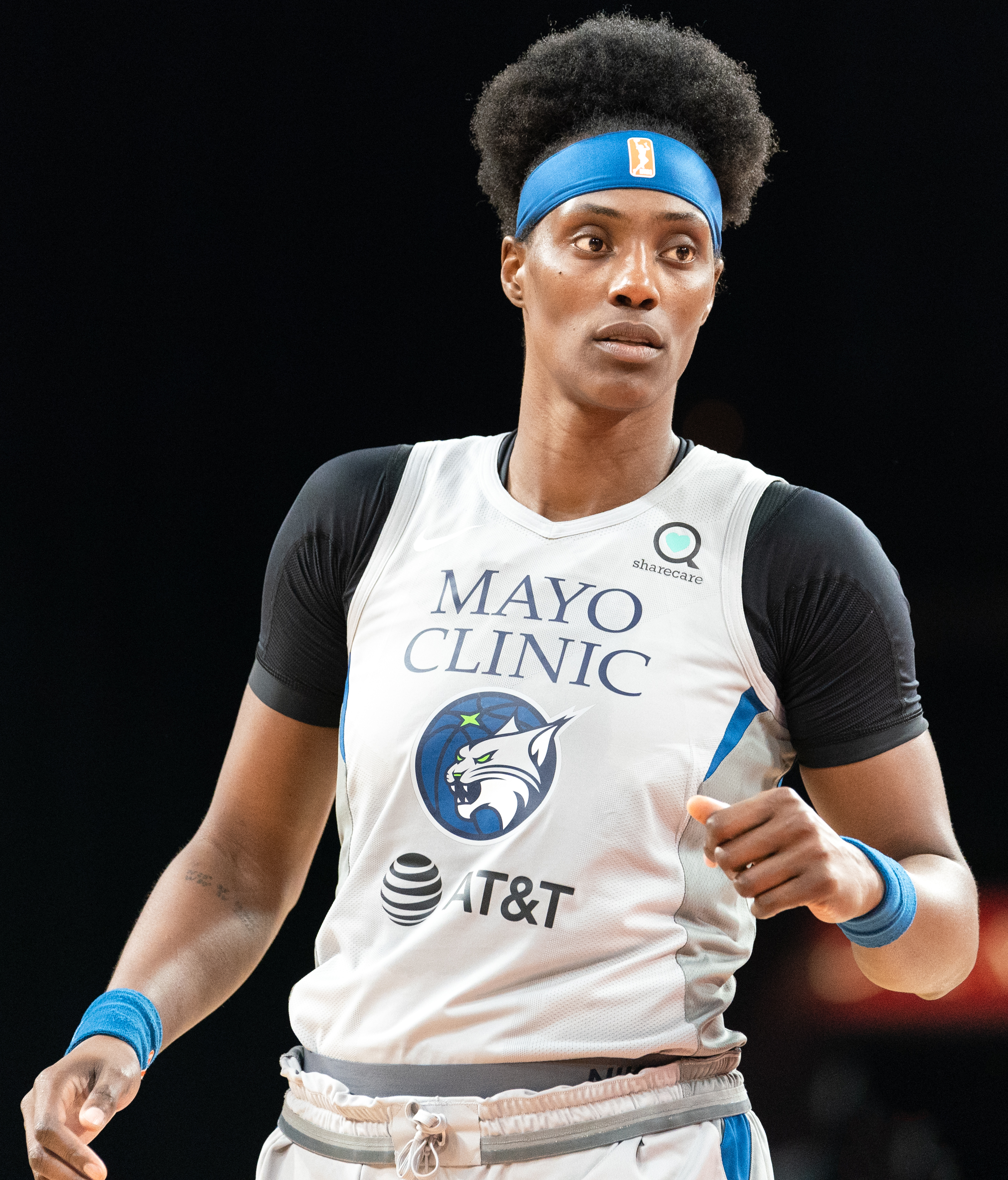 Minnesota Lynx center, Sylvia Fowles playing in Las Vegas in a game against the Aces